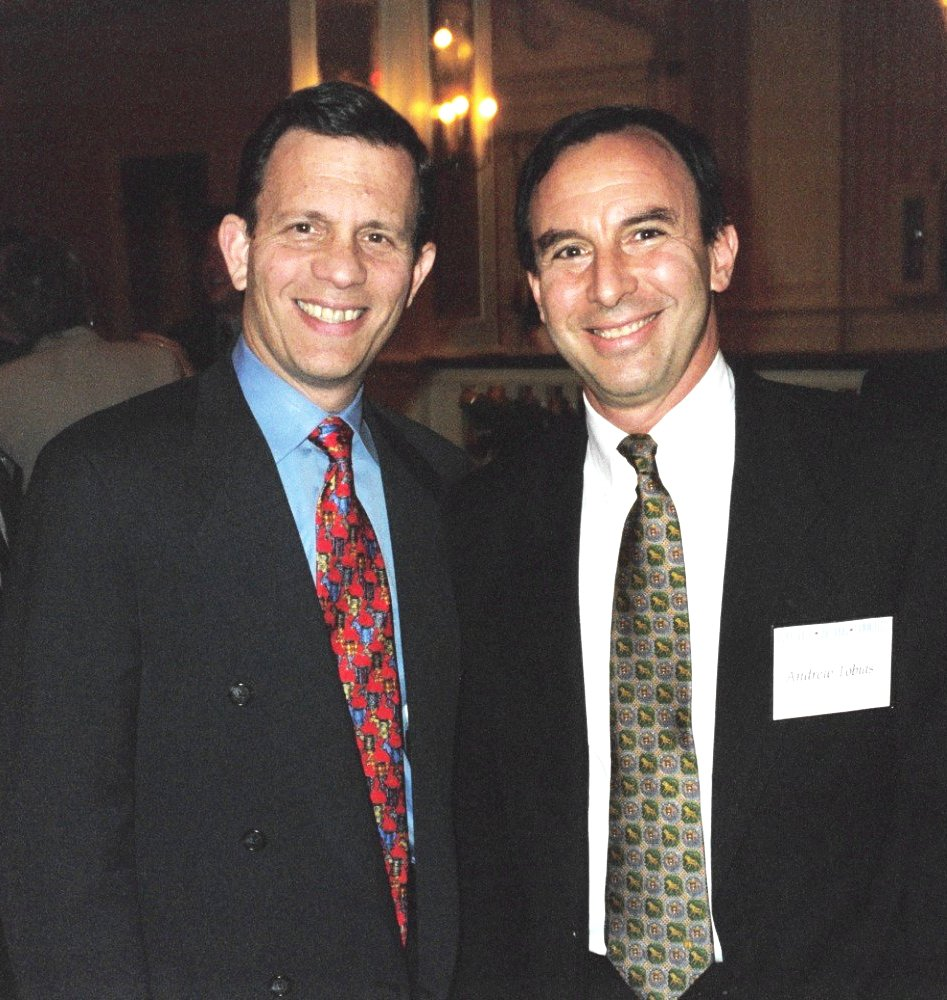 Washington, D.C., December 1, 1998. This photograph scanned from the original negative.